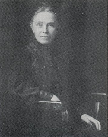 Julia Chester Emery.